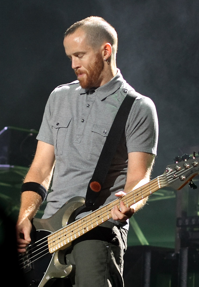 Cropped for optimization of Dave Farrell article. Can be found in its original context at Dave_phoenix_farrell.jpg. I am not the originator of the image. User:Believer is the originator.